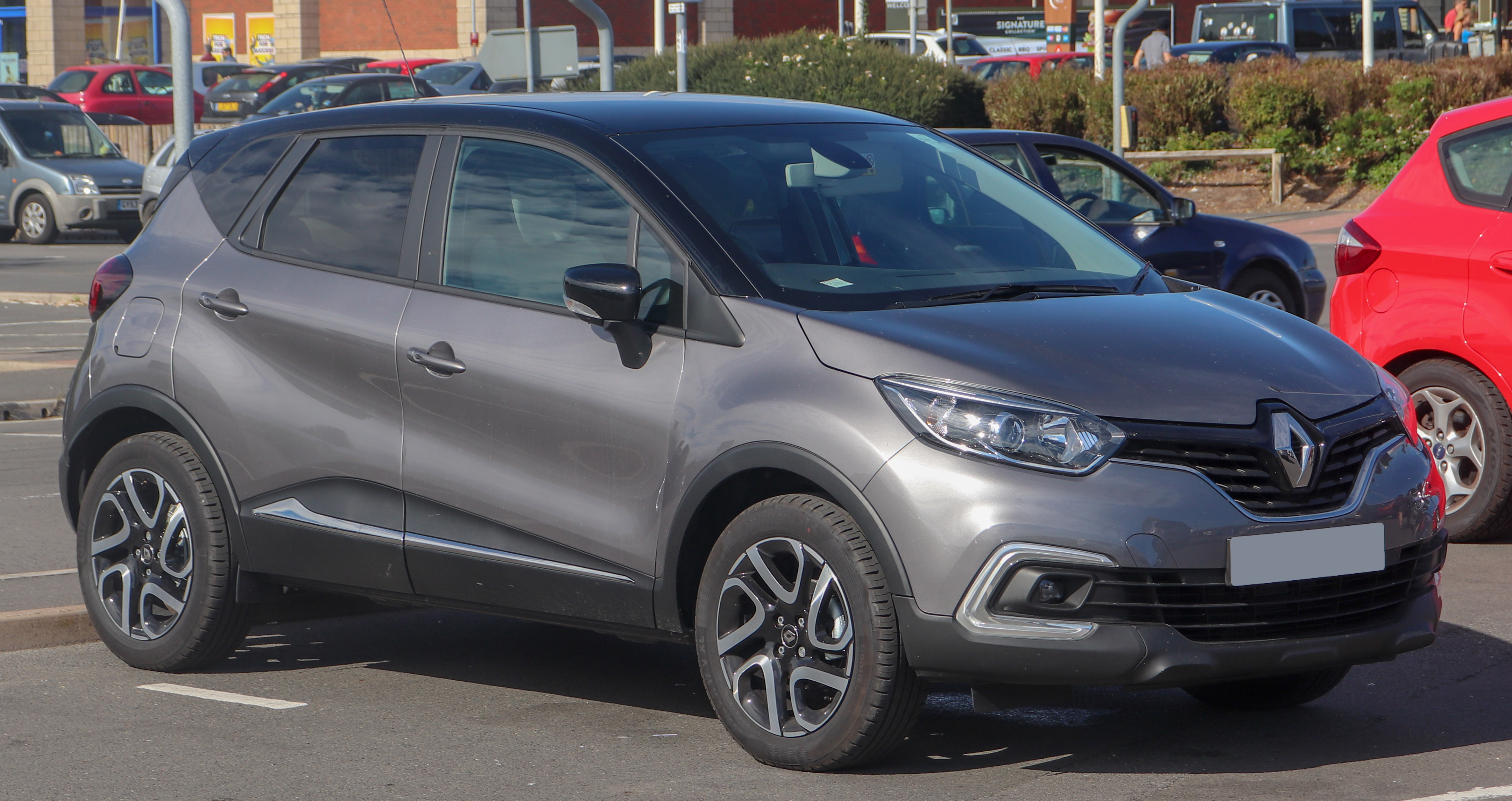 2018 Renault Captur Iconic TCE 900cc Taken in Weymouth, Dorset